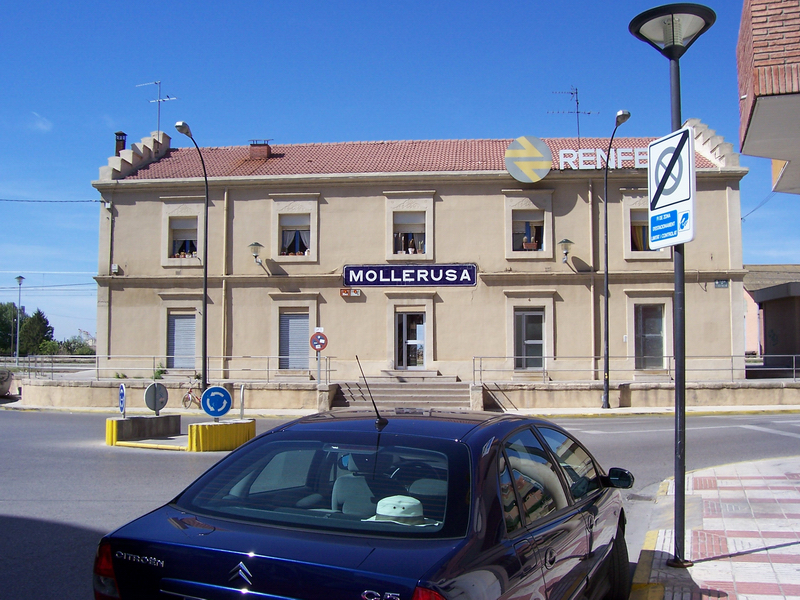 Mollerussa train station